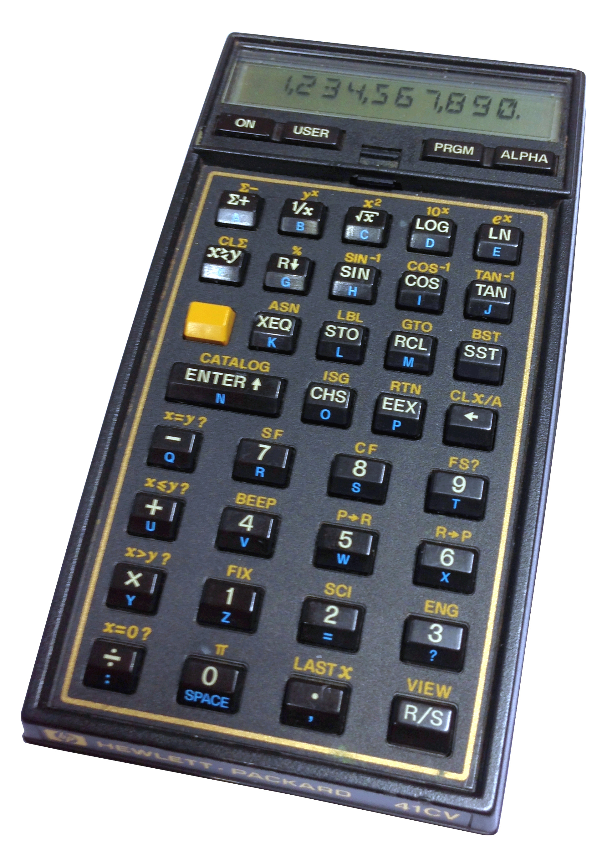 Programmable Calculator Hewlett-Packard HP-41CV, 1980ies